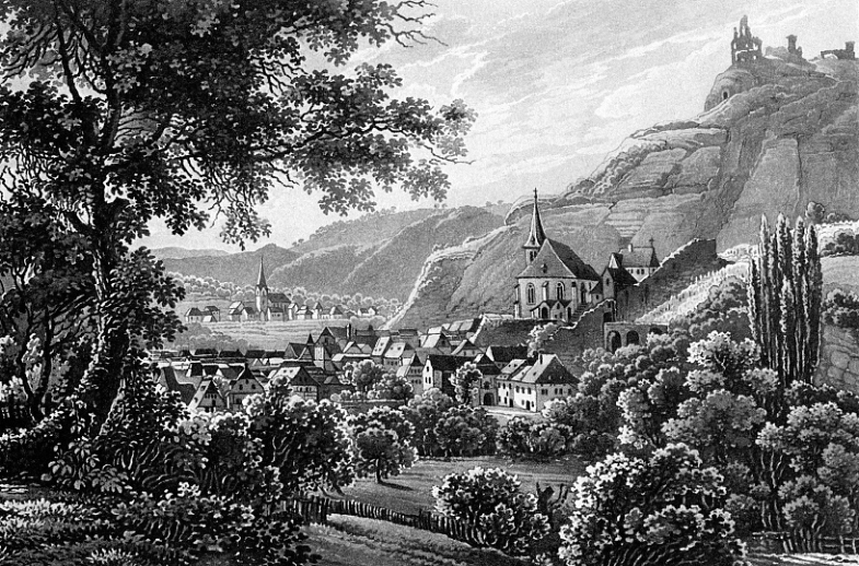 The town Traben-Trarbach and the Grevenburg on the Moselle River in Germany. Aquatint engraving by Karl Bodmer 1841.